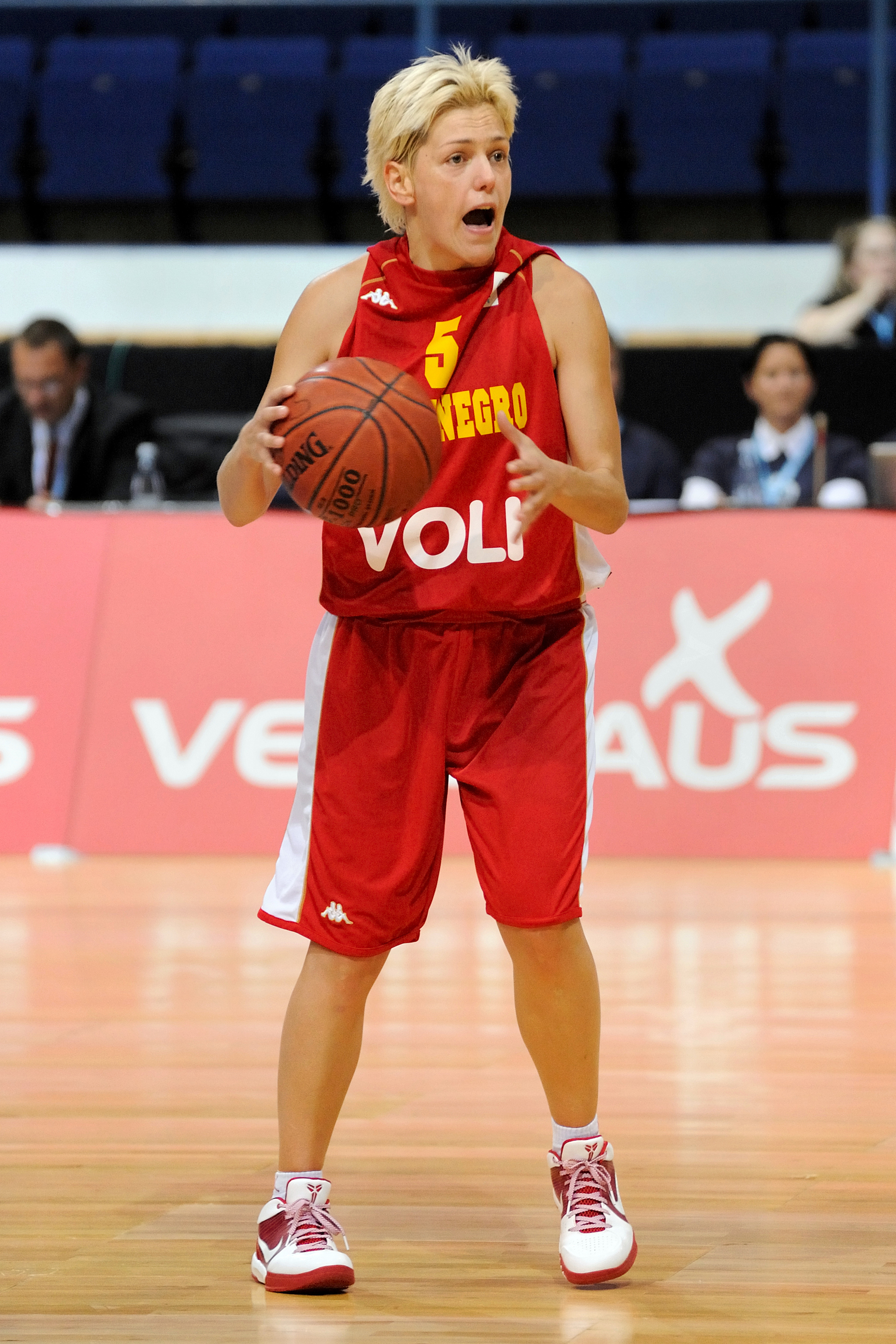 Basketball player Jelena Škerović playing for Montenegro against Finland at Barona Arena in Espoo, Finland.